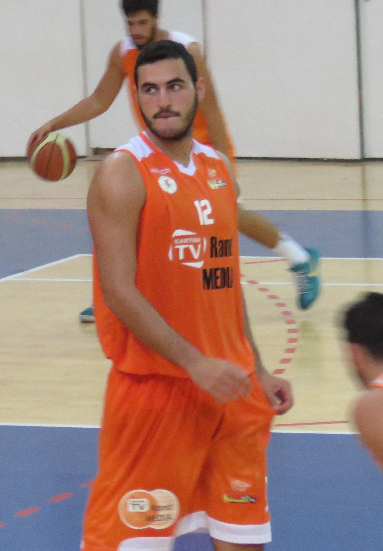 Category:Maccabi Rishon LeZion vs. Ironi Ramat Gan - Pre-season friendly, Septeber 3, 2015